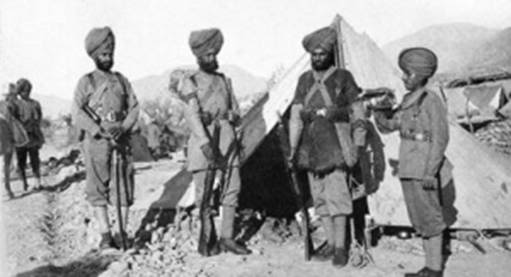 Sikh Regt Soldiers Circa 1890